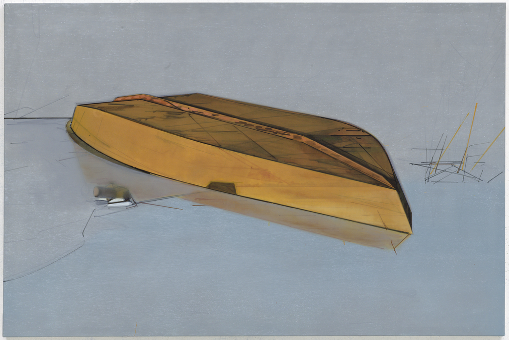 Thoralf Knobloch, Boot I'm Eis, kieloben, 2011, 140 x 210 cm, oil on canvas